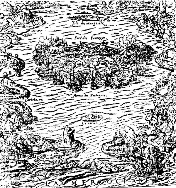 Drawing of the Island of Villegaignon, in Rio de Janeiro, Brazil, depicting Fort Coligny under attack by Portuguese forces under Mem de SÃ¡. Ð¡Ð»Ð¸ÐºÐ°:Ile-de-villegagnon.jpg